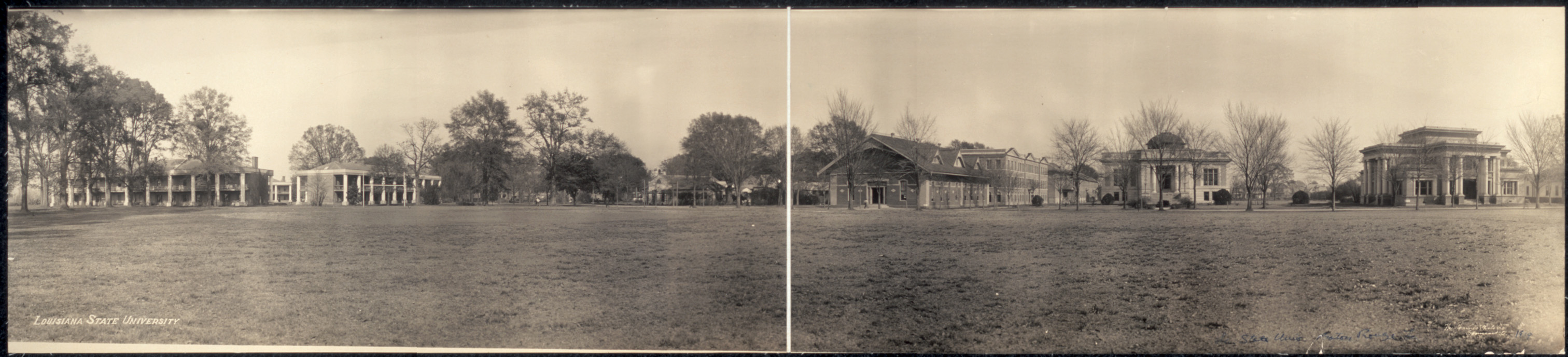 Item Title Louisiana State University, Baton Rouge, La.. Created/Published c1909. Notes Copyright deposit; Haines Photo Co.; January 25, 1909; DLC/PP-1909:42876. Copyright claimant's address: Conneaut, O. Subjects Universities & colleges. Educational facilities. Louisiana State University (Baton Rouge, La.)--Buildings. Panoramic photographs. Gelatin silver prints. United States--Louisiana--Baton Rouge. Related Names Haines Photo Co. (Conneaut, Ohio), copyright claimant. Medium 1 photographic print : gelatin silver ; 10 x 45 in. Call Number PAN US GEOG - Louisiana no. 16 Special Terms of Use No known restrictions on publication. Part of Panoramic photographs (Library of Congress) Repository Library of Congress Prints and Photographs Division Washington, D.C. 20540 USA Digital ID (digital file from intermediary roll film copy) pan 6a05509